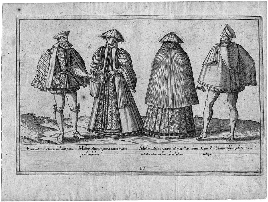 Costumes of two merchant couples from Brabant and Antwerplabel QS:Len,"Costumes of two merchant couples from Brabant and Antwerp" label QS:Lde,"Brabanter und Antwerpener Trachten zweier Kaufmannspaare;"